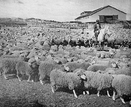 A flock of sheep outside a sheep shearing house belonging to Sociedad Explotadora de Tierra del Fuego.